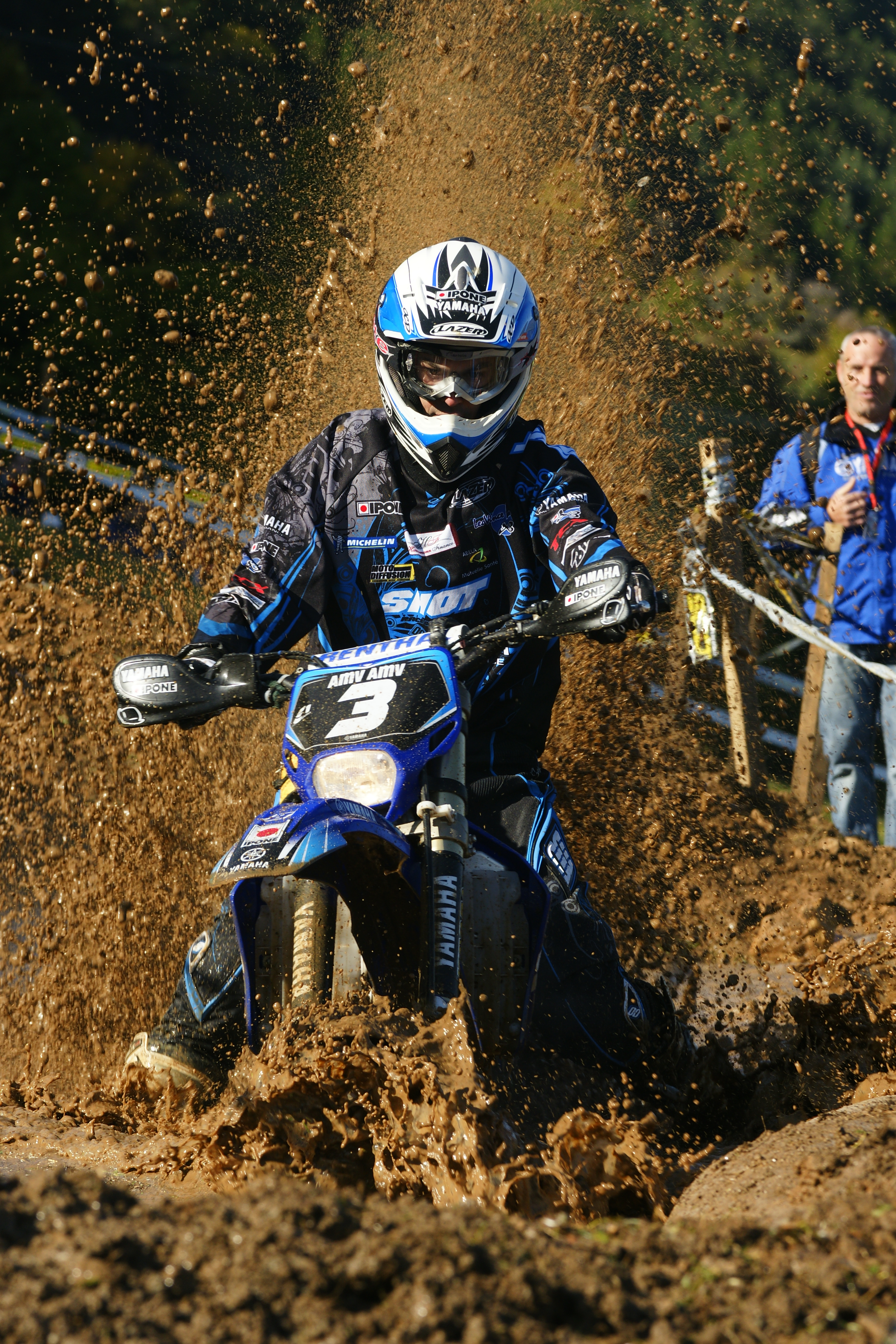 Marc Germain in the XTrem test, during the WEC 2008 final in Mende (48)